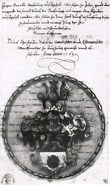 Christoph Schissler text page with signature and coat of arms from his "Geometria", 1569